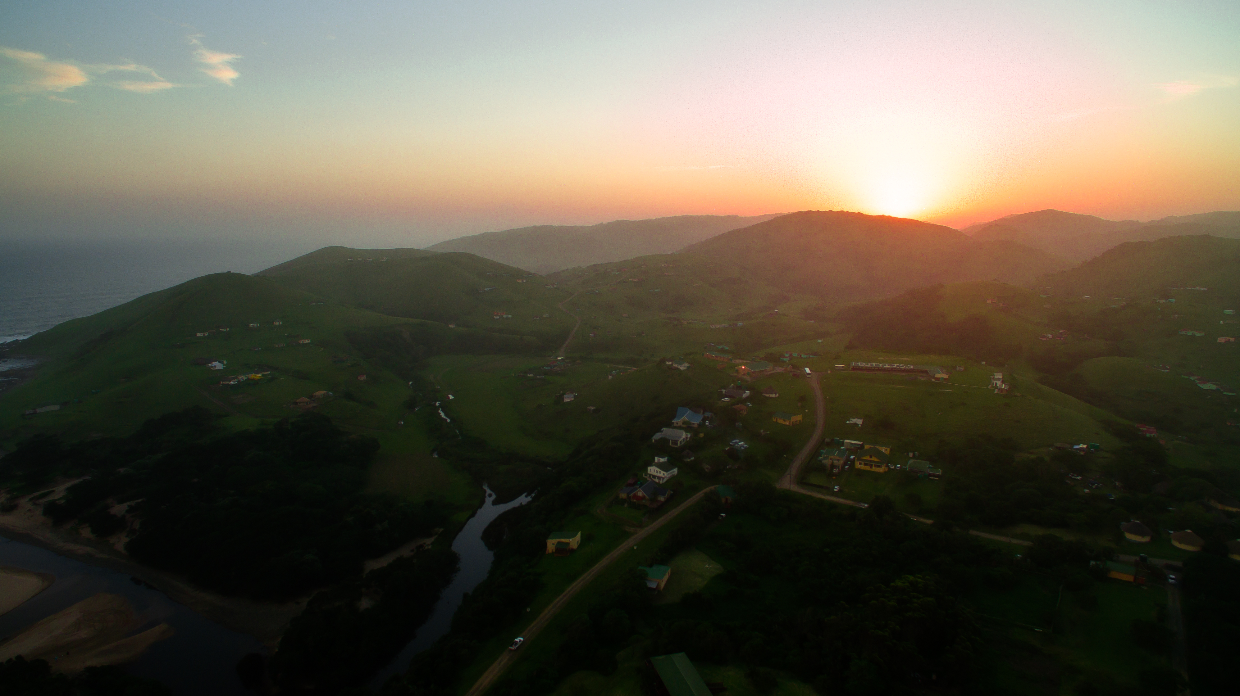 The Wild Coast or otherwise known as the Transkei is located in the Eastern Cape province of South Africa. This part of the South African coastline is untouched from large development and boasts some of the most amazing scenery to be found in the country. The way of life is relaxed with many of the people living a subsistence farming lifestyle.